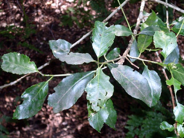 Claoxylon australe at Macquarie_Pass N.P.